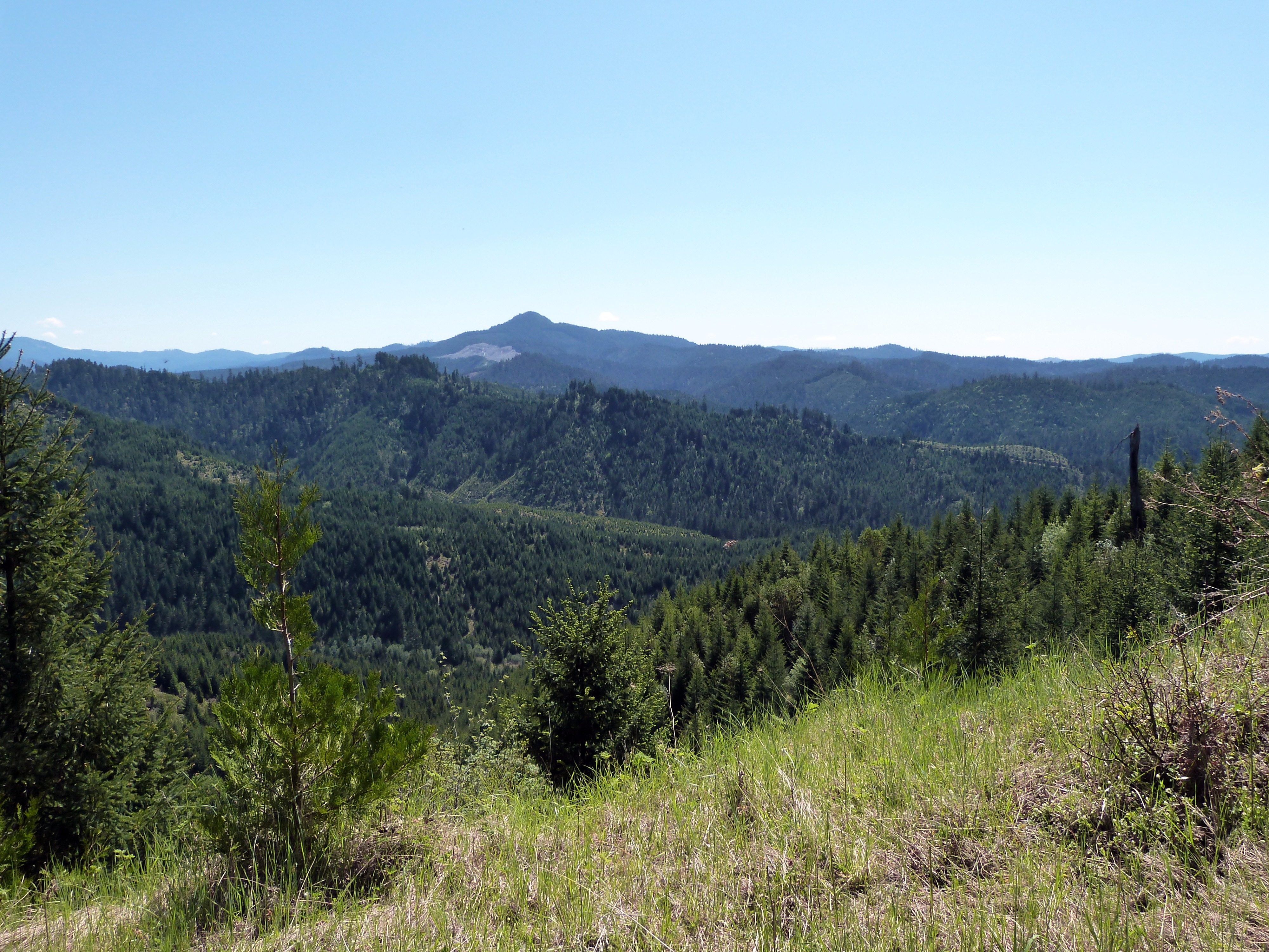 View from near the China Ditch, near Myrtle Creek, Oregon, United States. Illustrates the landscape through which the ditch was dug.